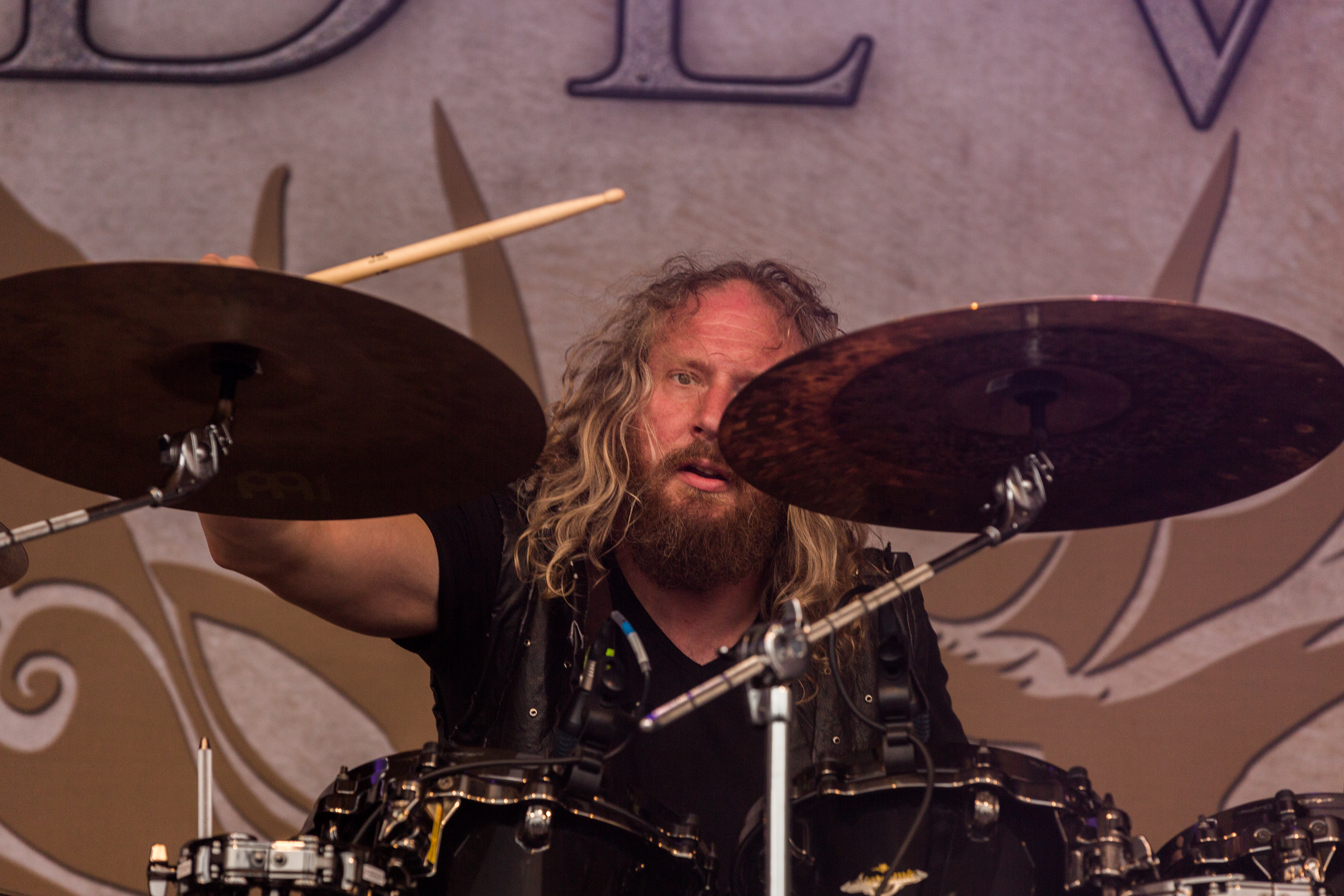 The Dutch folk an pagan metal band Heidevolk at the Metal Frenzy 2017 in Gardelegen/Germany.